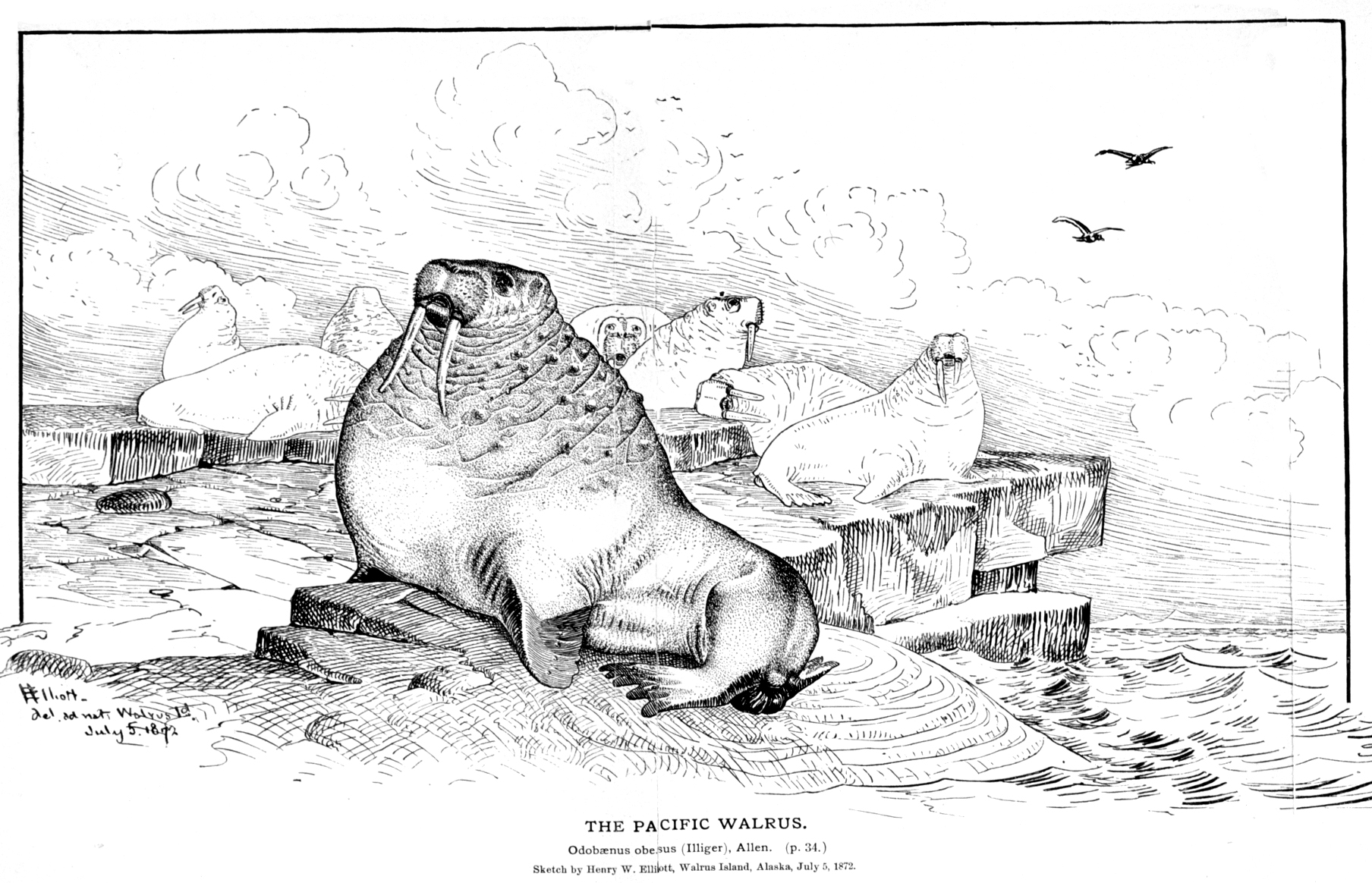 Pacific Walrus (Odobenus rosmarus divergens)